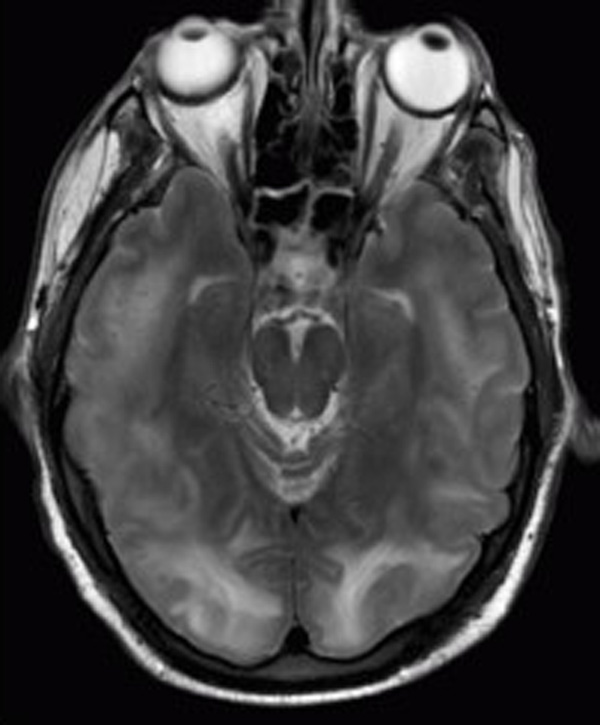 Magnetic resonance image showing multiple cortico-subcortical areas of hyperintense signal involving the occipital and parietal lobes bilaterally and pons in a patient with posterior reversible encephalopathy syndrome